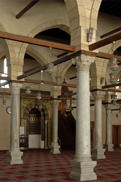 Mosque of Amr. Cairo. Egypt